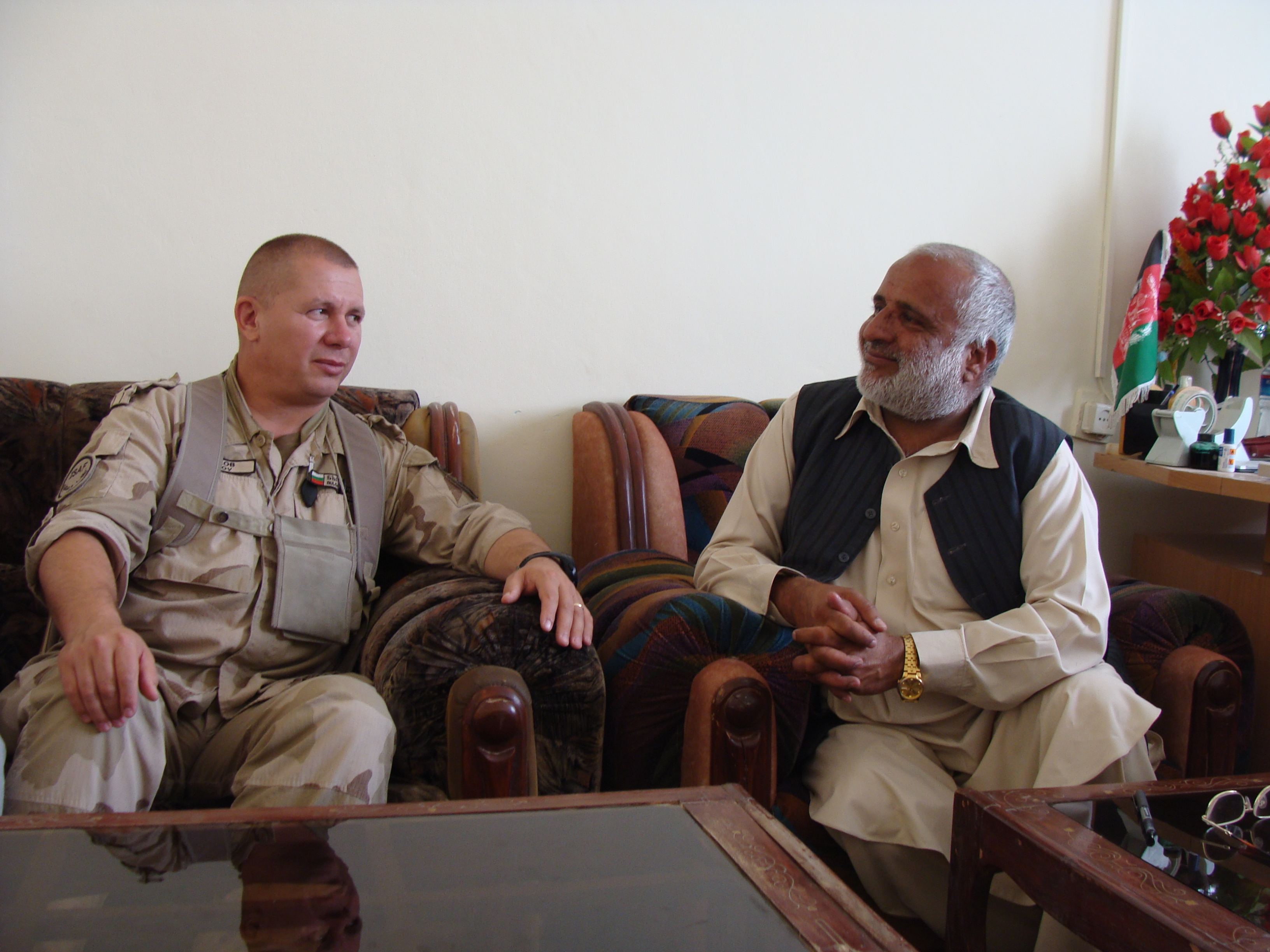 Meeting between Col. Shivikov and the Governor of Kabul - Mr. Hadji Rafik